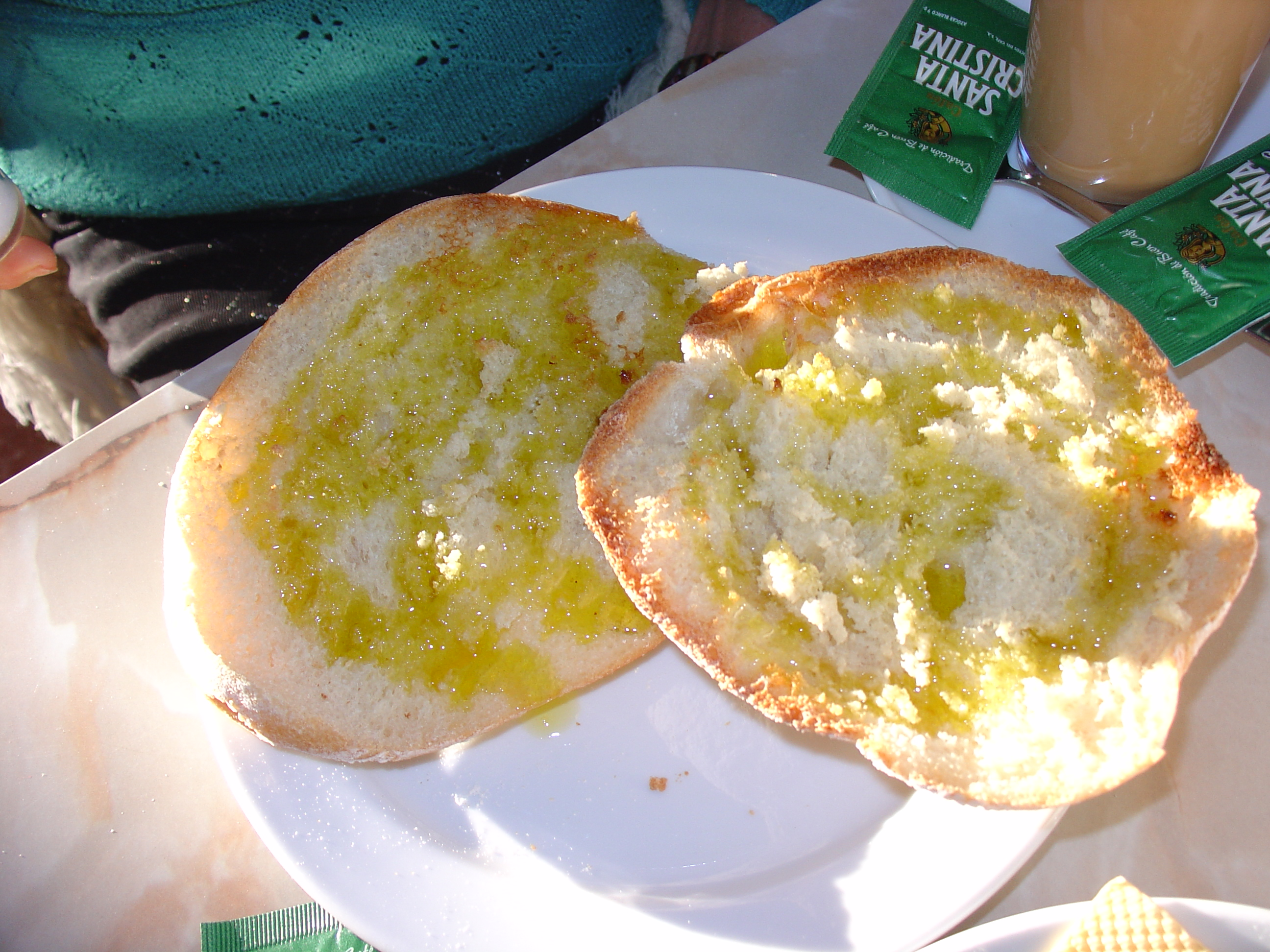 A typical food in South Spain called "Mollete" (bread and olive oil)